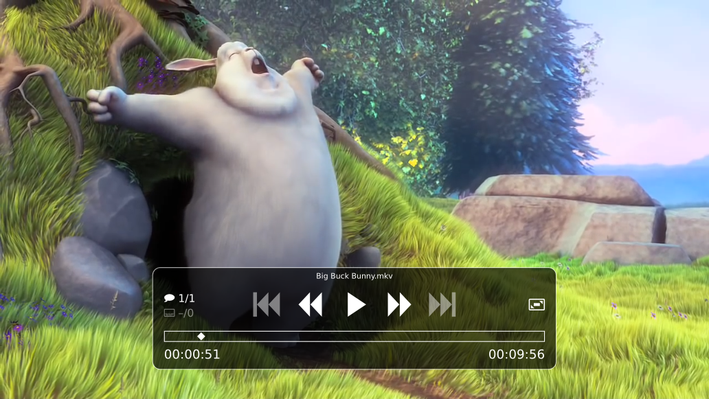 The video frame is from a free and open-source film called Big Buck Bunny, released under Creative Commons Attribution 3.0 license. The video player, mpv is released under the GPLv2.